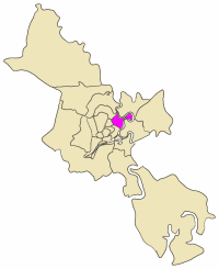 position of Binh Thanh district in an outline of the metropolitan area of HCMC (Ho Chi Minh City, Vietnam) - ISO code VN-F-HC. Keywords: map, outline, city, Ho Chi Minh City, HCMC, HCM, district Binh Thanh, quan Binh Thanh.